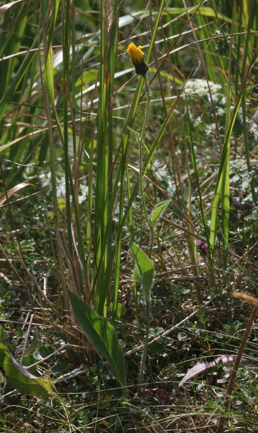 Flowering Hieracium chlorocephalum in Mały Śnieżny Kocioł, Karkonosze, Poland